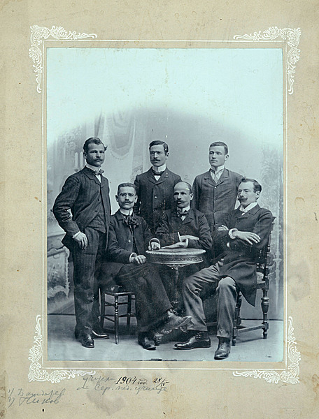 Georgi Badzharov